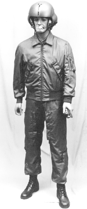 Personal Equipment & Rescue/ Survival Lowdown.